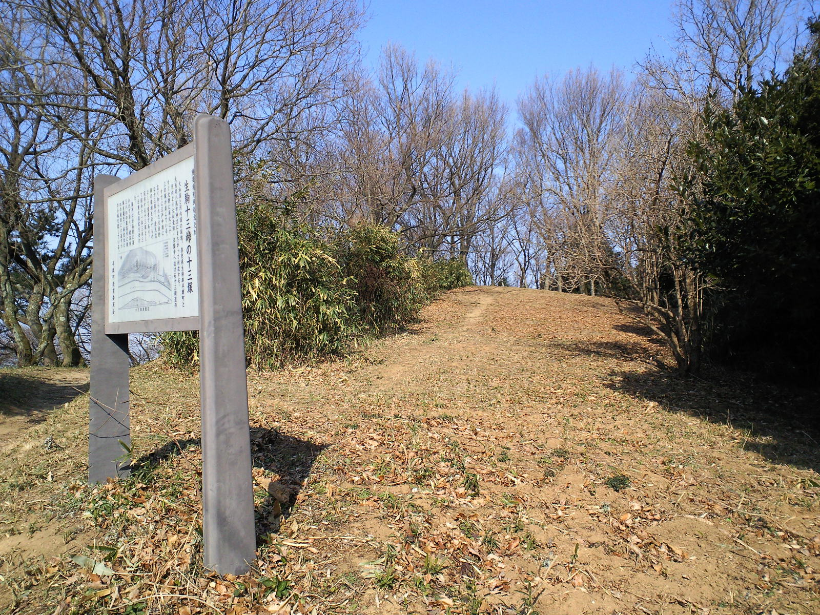 Jusanzuka (Mound) Heguri, Nara , Japan